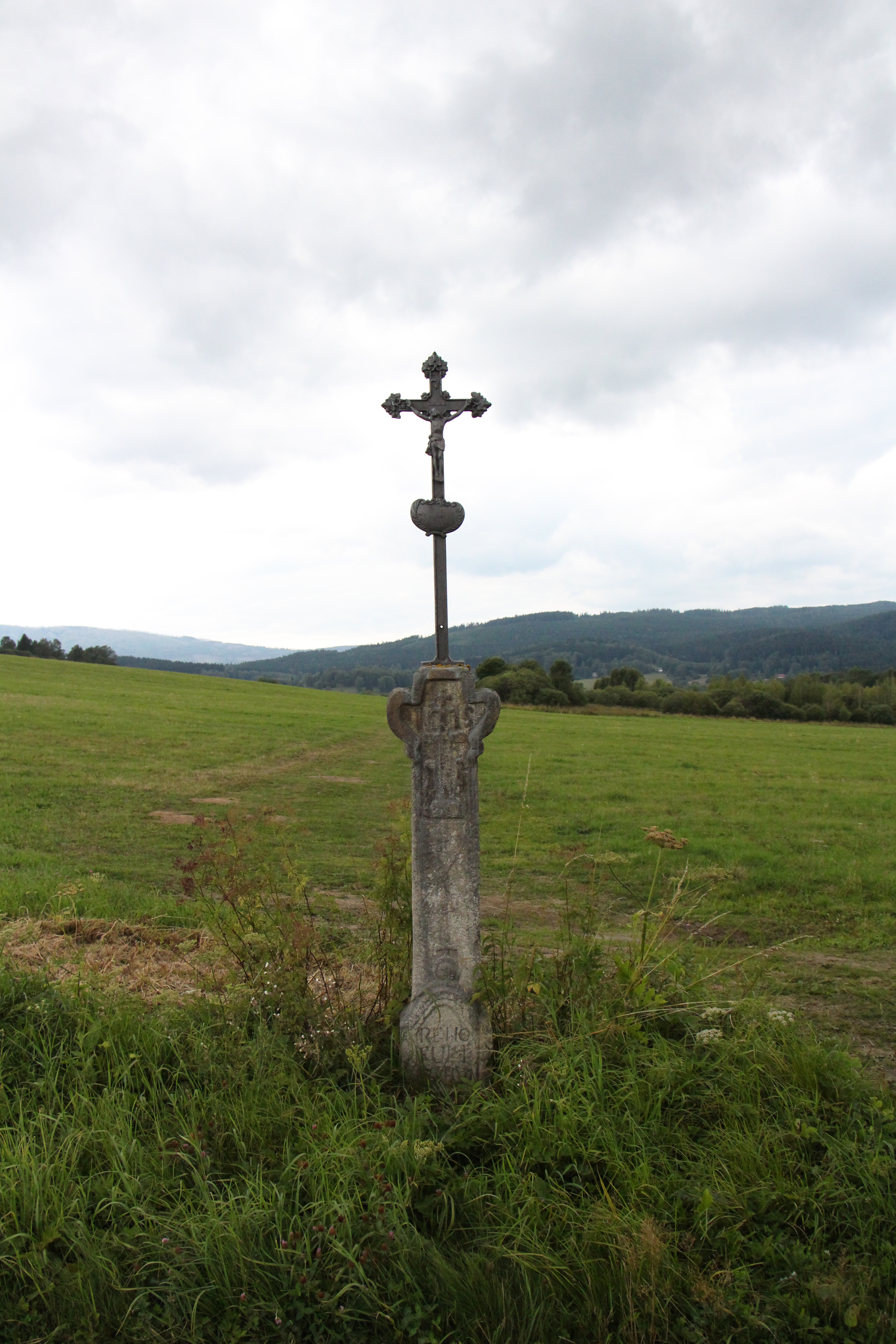 the village of Bělá north of the municipality of Nová Pec, Prachatice District, South Bohemian Region, Czech Republic.